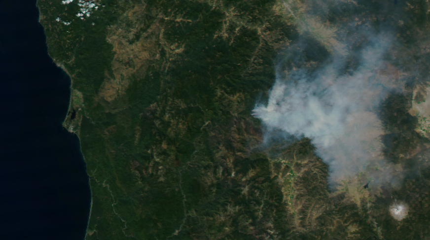 NASA MODIS satellite photo of smoke from the Gap Fire on August 30, 2016.